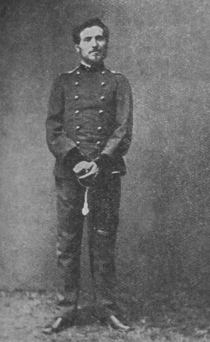 Putnik ranked leutenant in1871. Српски (ћирилица): Пунтик са чином поручника 1871. године